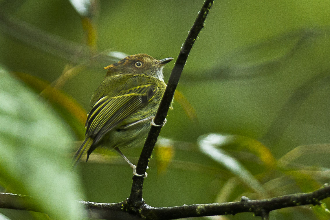 Scale-crested pygmy tyrant (Lophotriccus pileatus) - South Ecuador_S4E8674